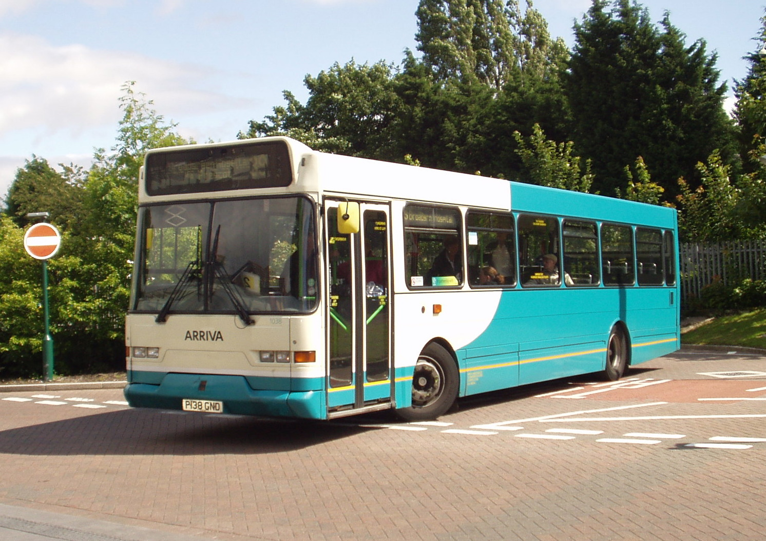 East Lancs Flyte bus body on Scania L113 chassis, Arriva North West and Wales, P138 GND, Huyton Bus Station (Merseyside, UK).